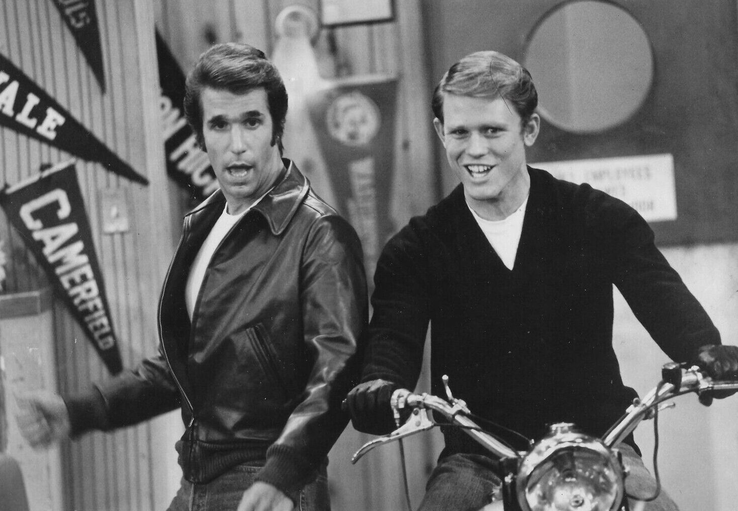 Publicity photo of Fonzie (Henry Winkler) and Richie (Ron Howard) from Happy Days.